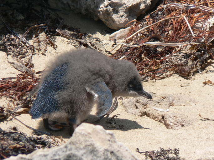 Eudyptula minor novaehollandiae chick at Penguin Island (Rockingham, West Australia, Australia)